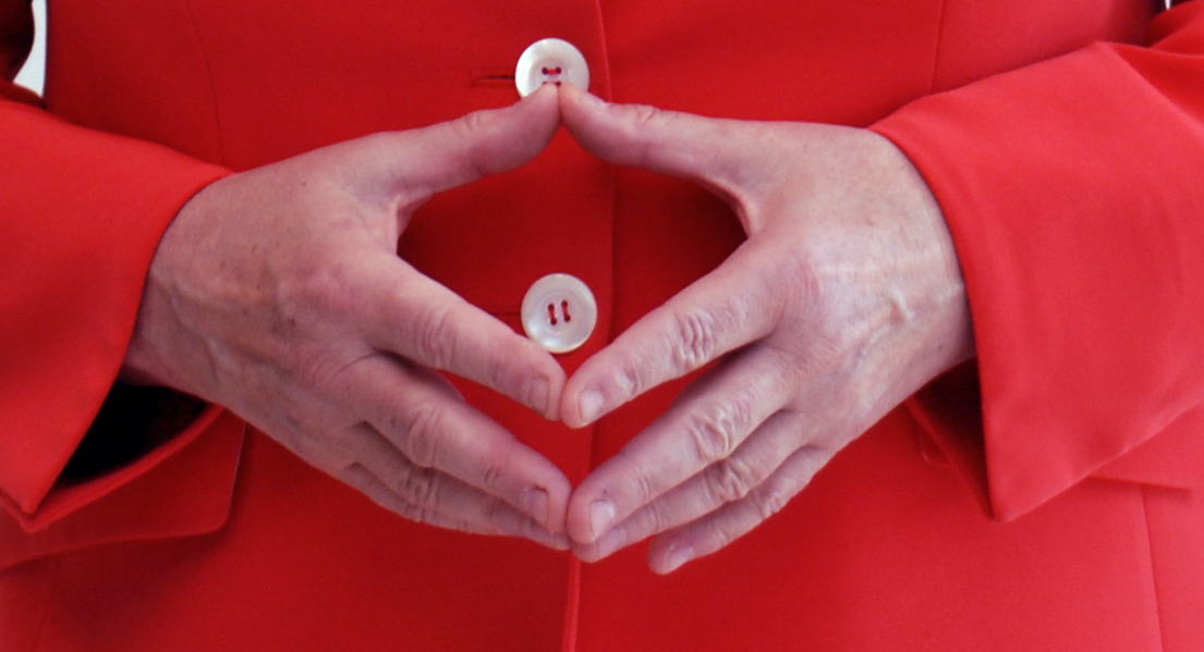 The hands of Angela Merkel, forming her trademark gesture (dubbed Merkel-Raute)